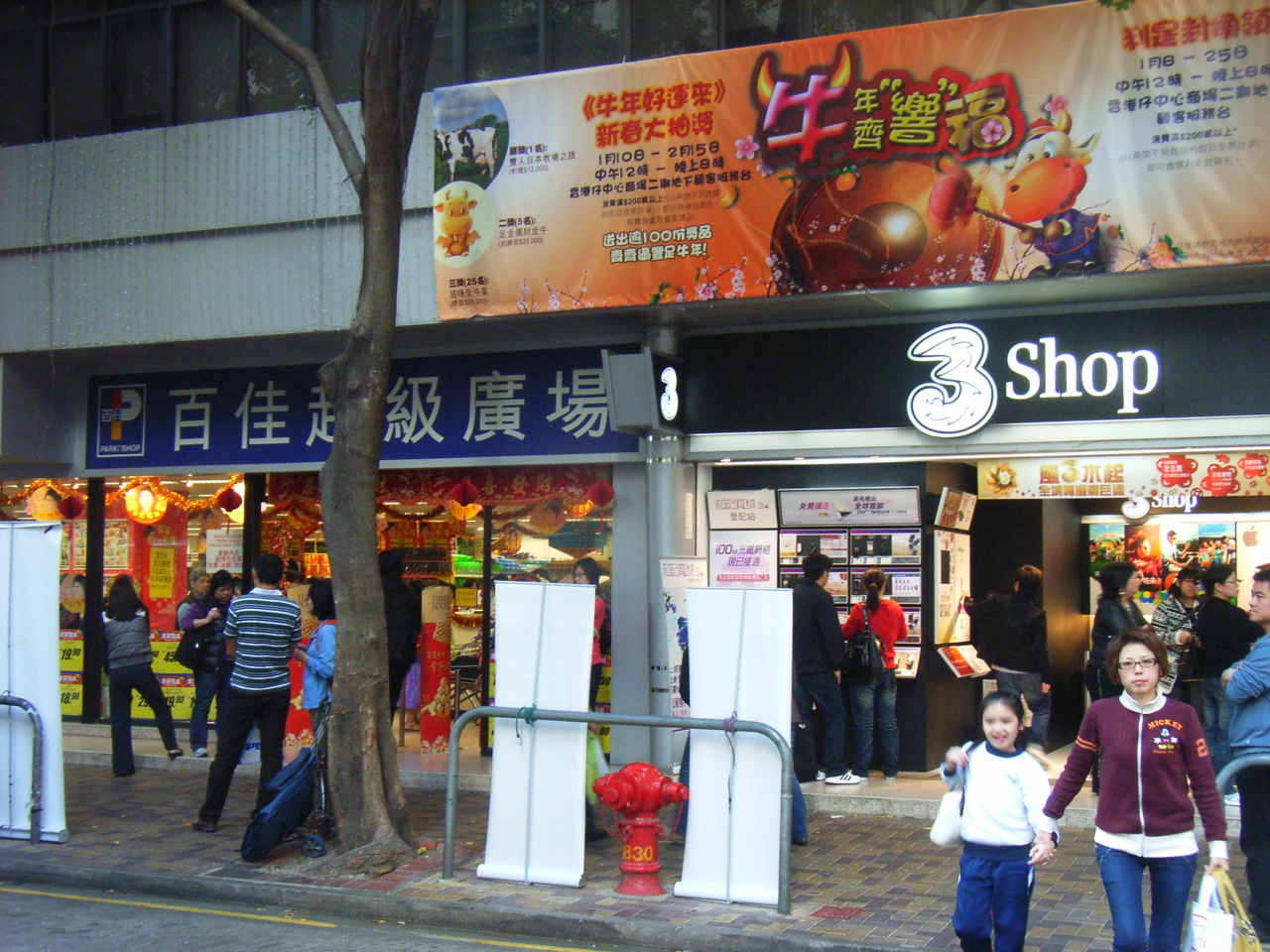 香港島南區 香港仔 南寧街